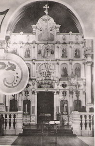 Orthodox church of St. Mary Magdalene in Vilnius